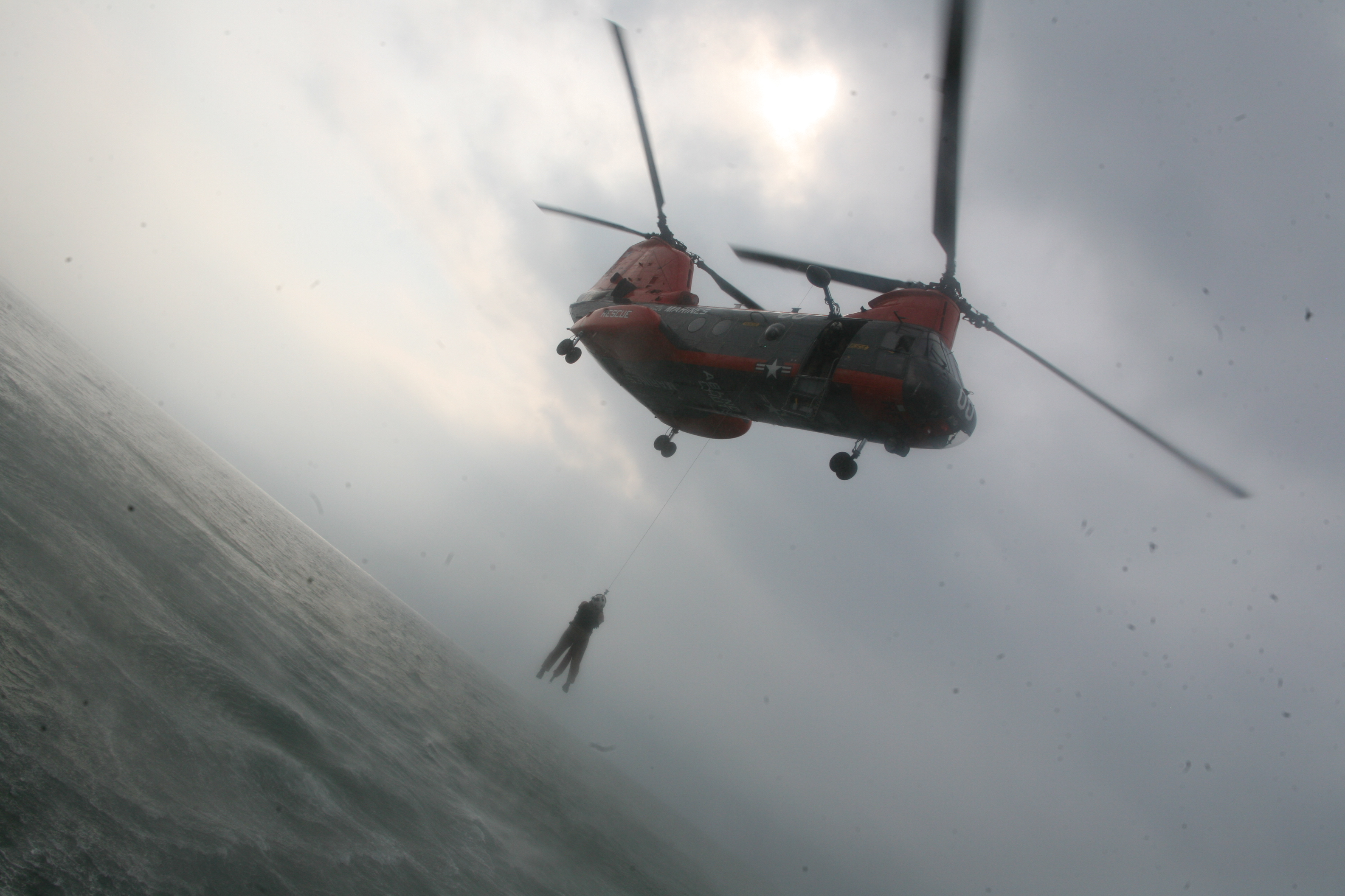 A HH-46E "Sea Knight" commonly called Pedro conducts rescues training. Marine Corps Air Station Cherry Point Photo by Cory D. Polom Location:MARINE CORPS AIR STATION CHERRY POINT, NC, US Date Taken:07.15.2010 Related Photos